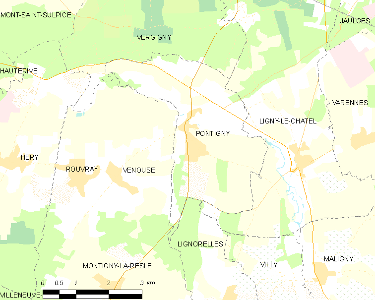 Map of French municipality Pontigny